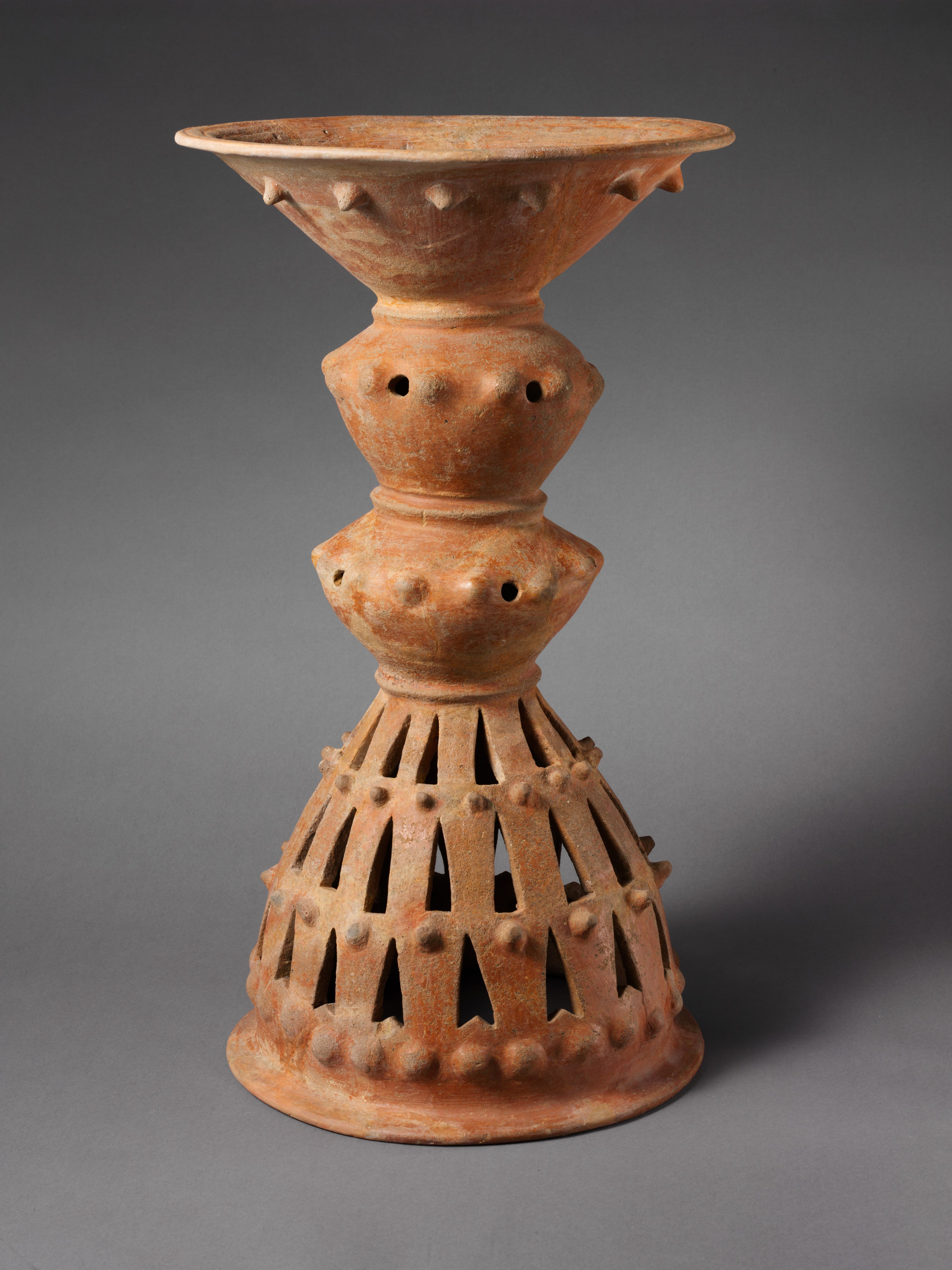 Etruscan; Stand, holmos; Vases